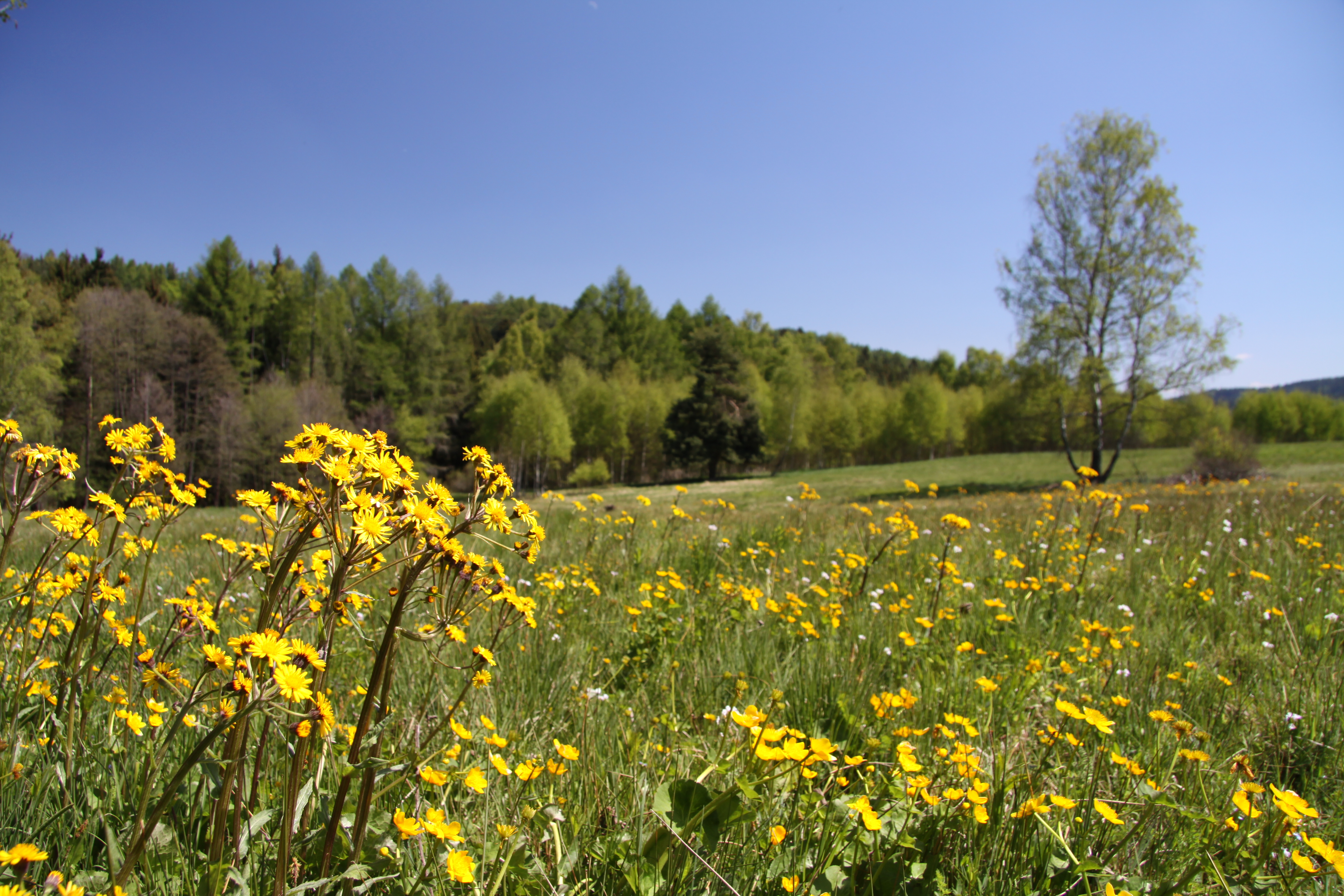 Tephroseris crispa. Natural monument Podhájí near Vacov village in Prachatice District, Czech Republic - Google Maps - Google Earth